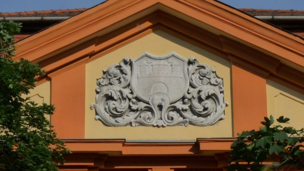 City Coat of Arms, Komárom